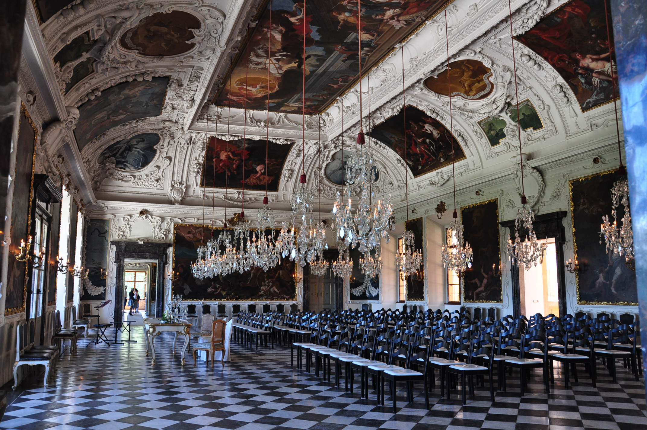 Graz – Schloss Eggenberg. Vom Schloss im Schloss – die Illusion vom perfekten Neubau: Planetensaal. Dieses Bild wurde anlässlich des österreichischen Tags des Denkmals 2014 in der Steiermark eingereicht.